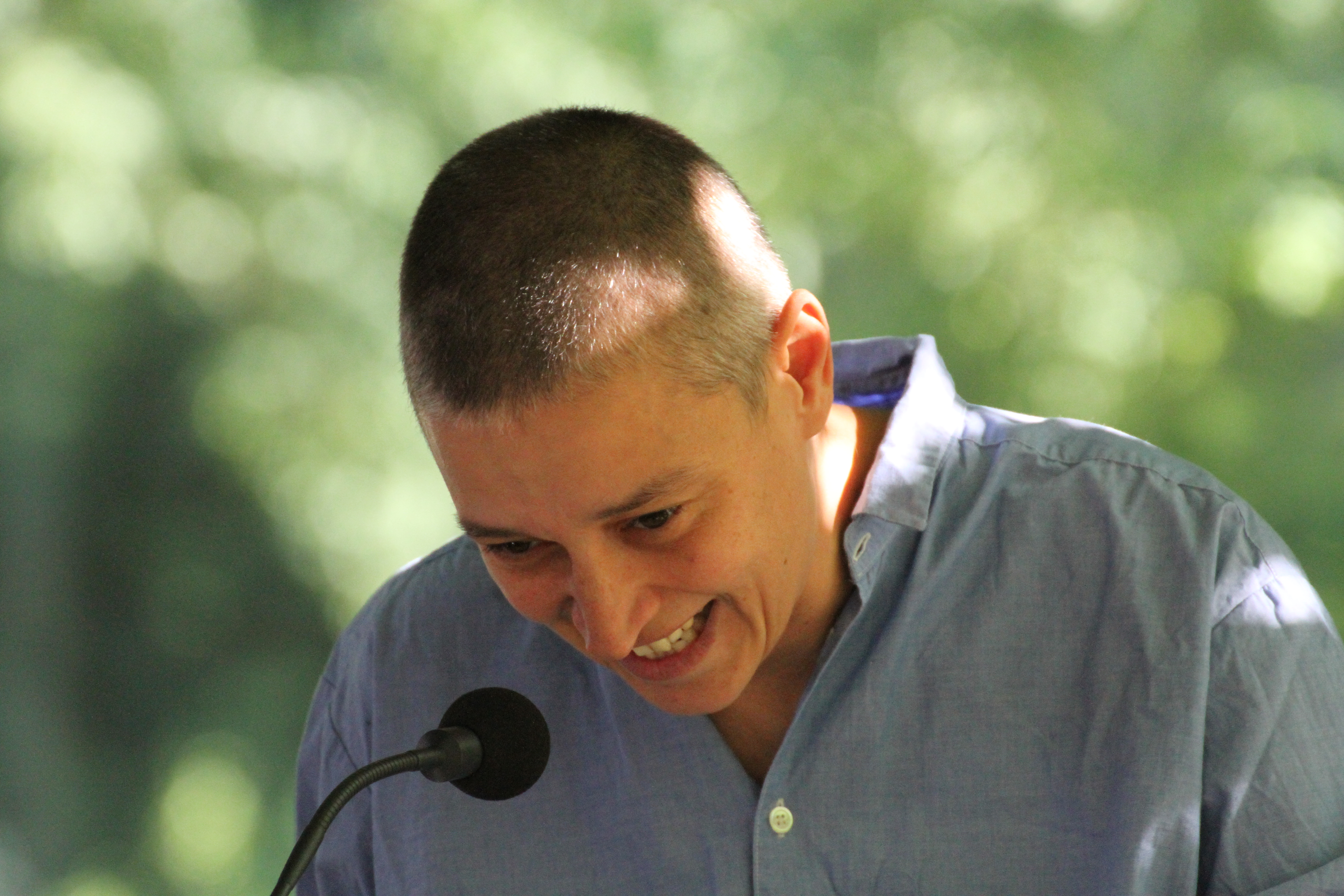 Anja Golob by Ciril Horjak